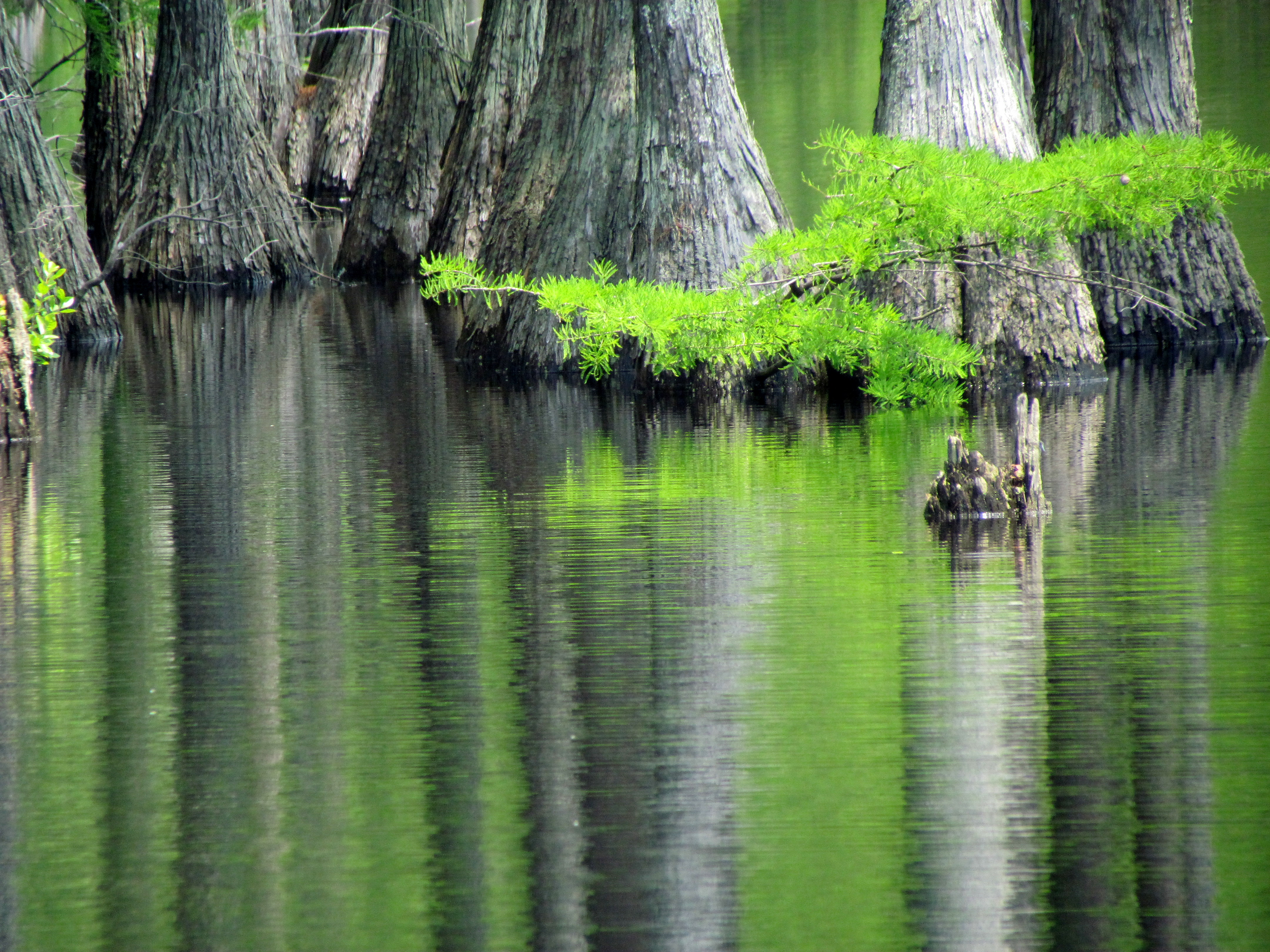 Long Valley Farm Carver Creek NC SP 2924